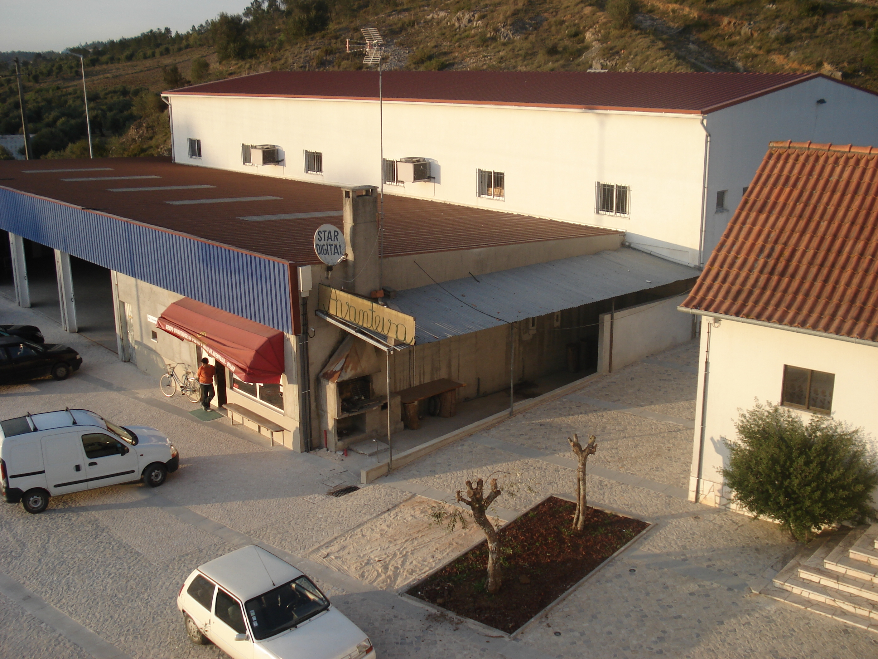 tyutyutyuuu